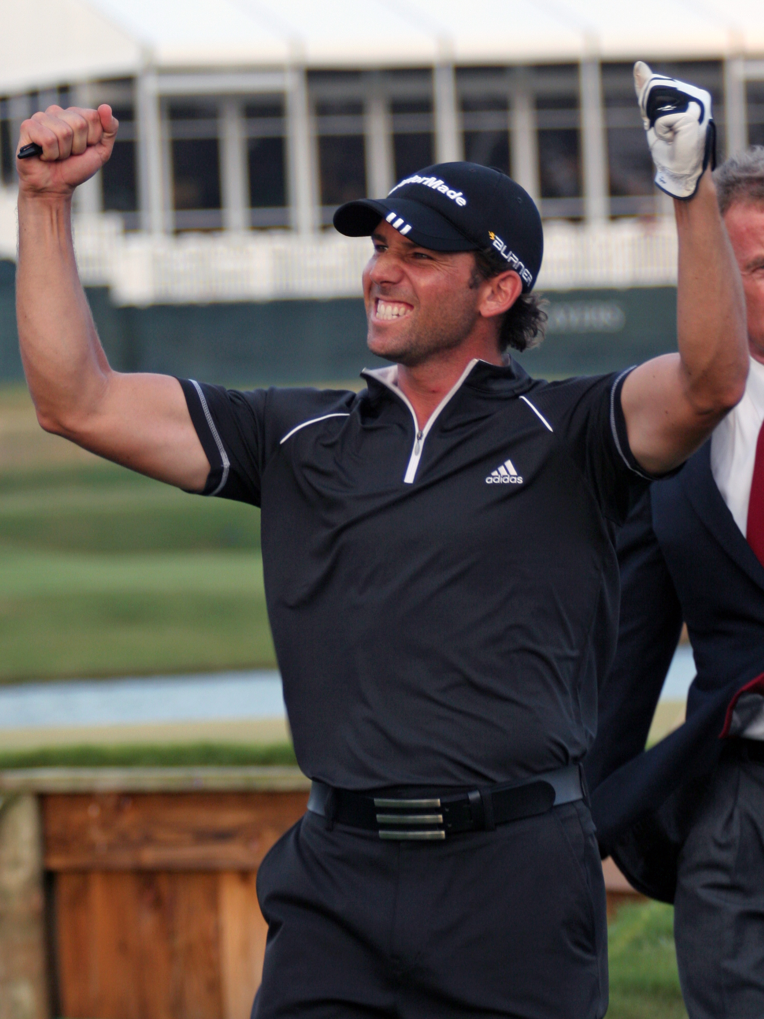 Sergio Garcia's reaction on the 17th green after winning the 2008 Players Championship.